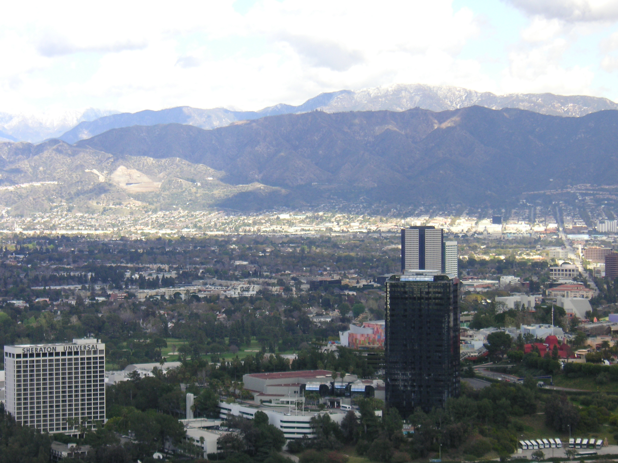 View of a portion of the San Fernando Valley. The immediate foreground is Universal City, the left 2/3 of the picture being the San Fernando Valley area of Los Angeles, with the remainder being Burbank. It appears this photo was taken from Universal Studios.